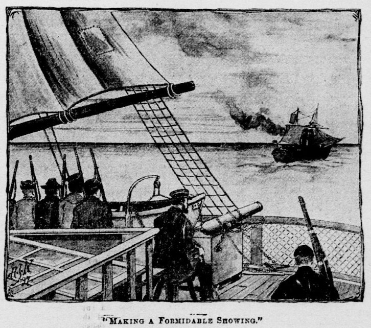 View from the deck of the unarmed Army transport USS Arago during its seven hour chase and capture of the blockade runner Emma during the American Civil War. "The capture was one of the most unique exploits on the Atlantic Ocean during the war. It was accomplished through a "big bluff," resulting in a prize of 450,000 dollars."